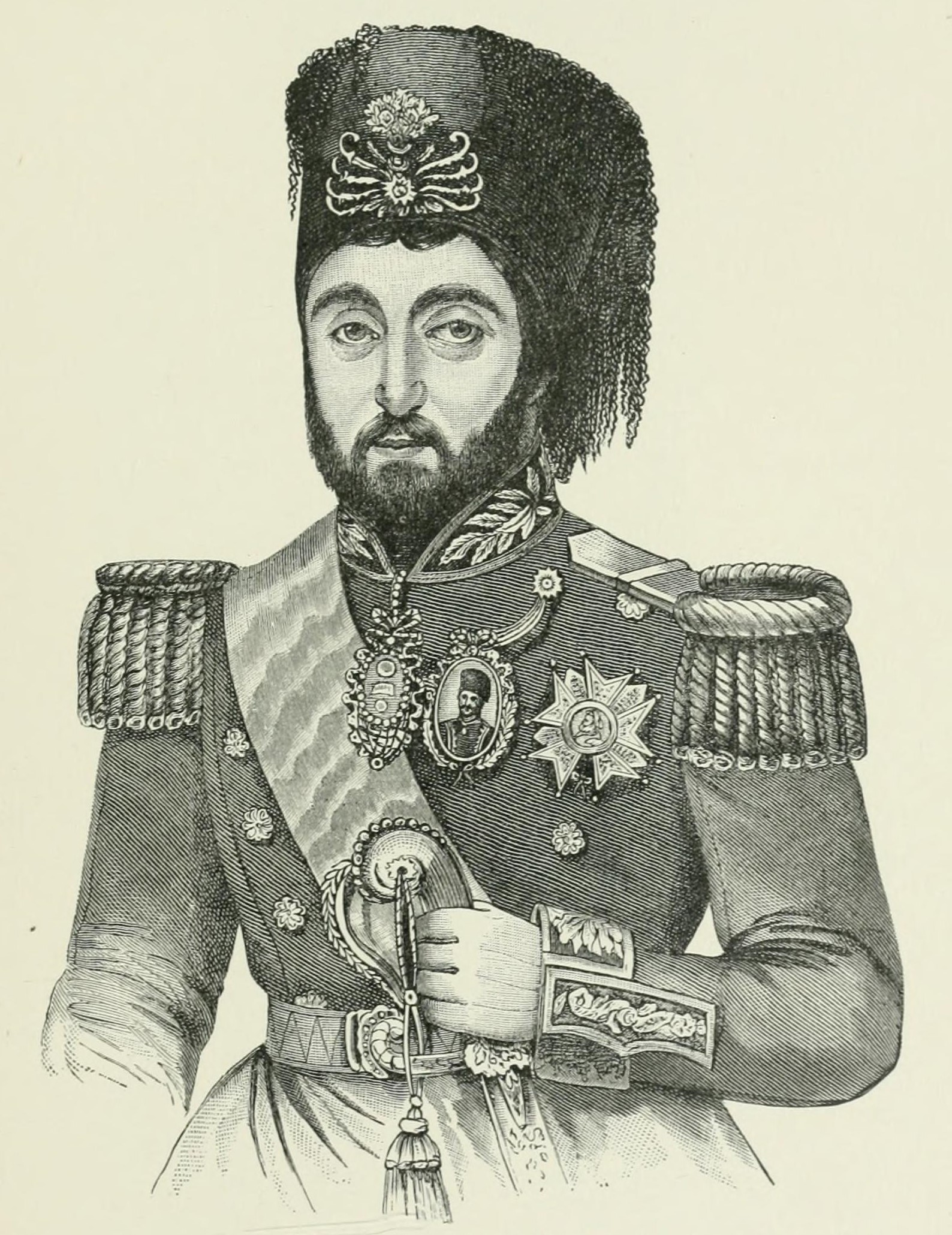 Taken from "A history of all nations from the earliest times" by John Henry Wright published by Lea Brothers & Co. in 1906 Philadelphia and New York. John Henry Wright died in 1908 more than 70 years ago.